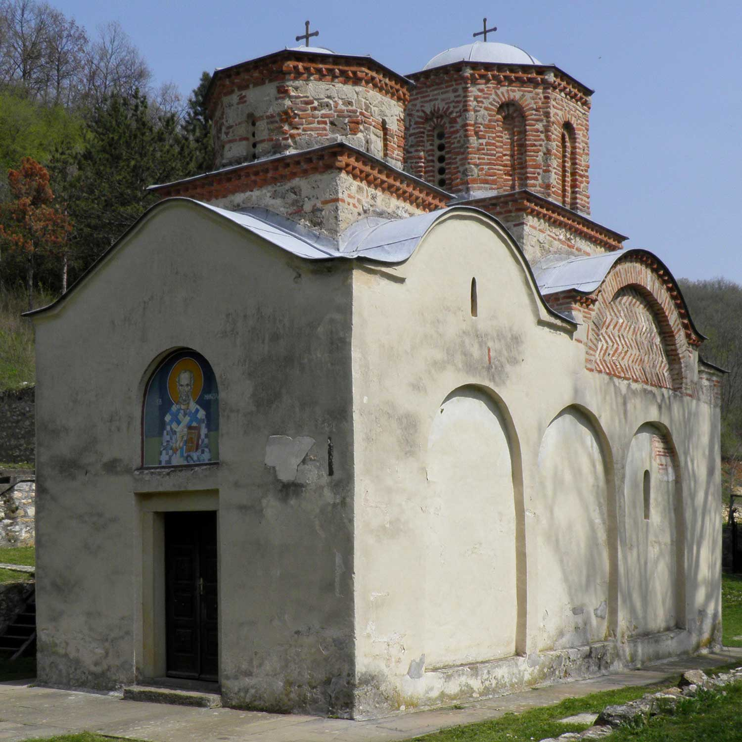 Monastery Jošanica in Jagodina